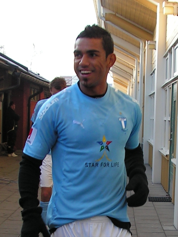 Wilton Figueiredo for Malmö FF just before second half in a friendly game vs HB Köge 23 Jan 2010 at Malmö IP in Malmö, Sweden.